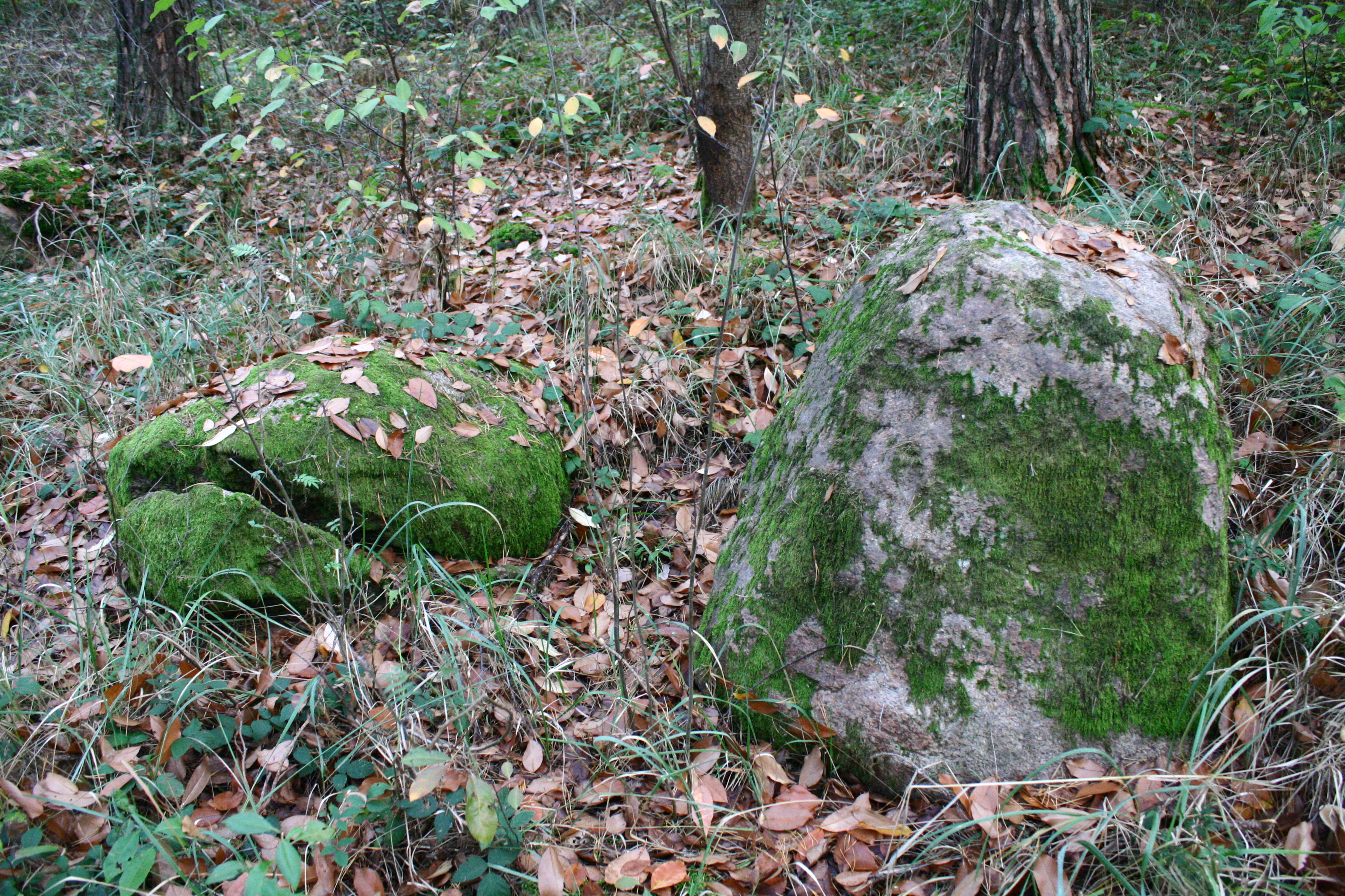 Megalithic tomb Haldensleben II 11